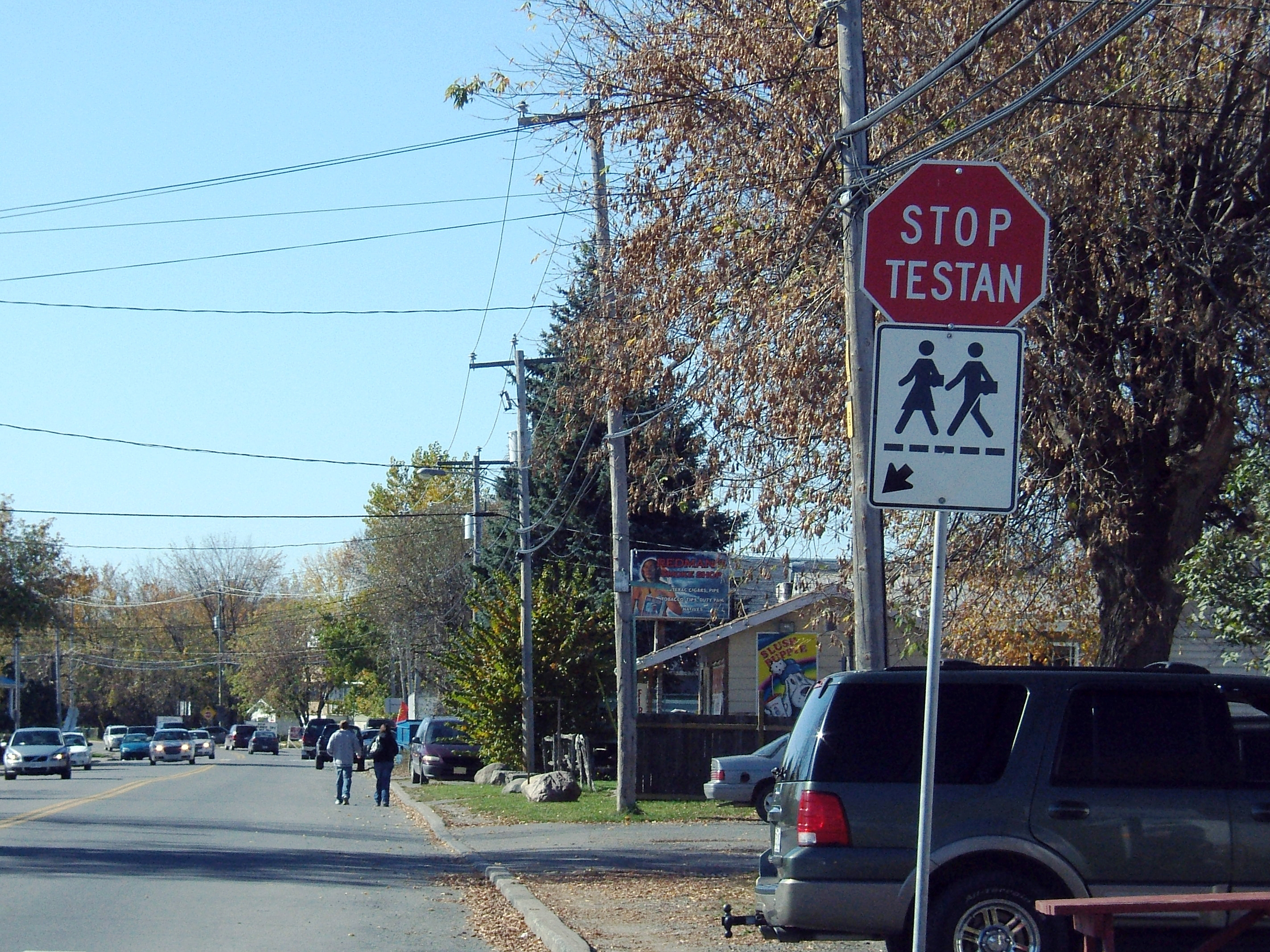 Red stop sign in Kahnawake with "STOP/TESTAN"